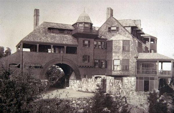 Kragsyde, summer residence of G. Nixon Black, Manchester-by-the-Sea, Massachusetts, 1883-85.